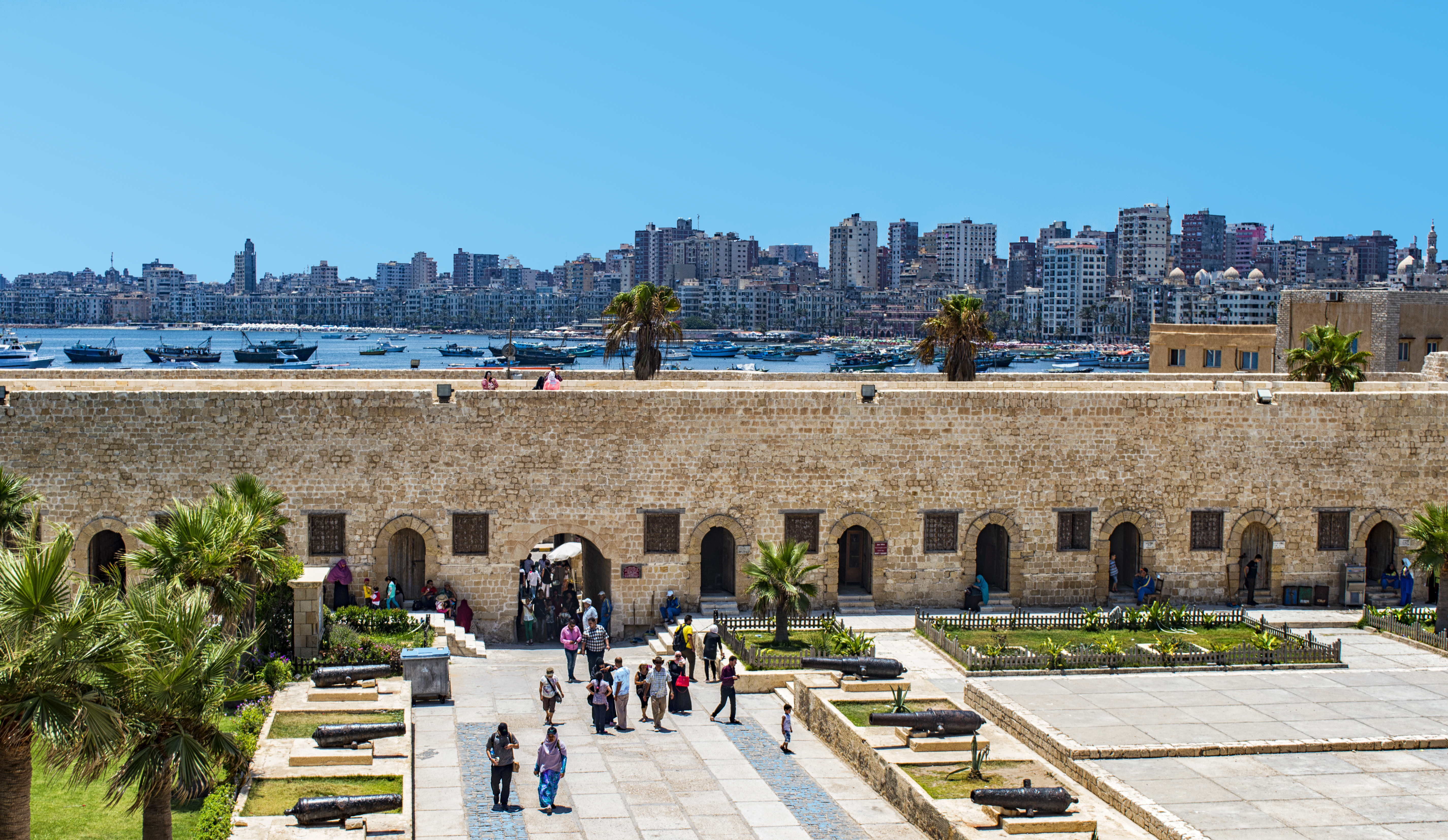 Skyline of Alexandria viewed from Qaitbey Citadel